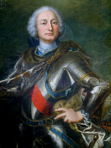 Portrait of Louis-Auguste d’Affry (1713-1793)